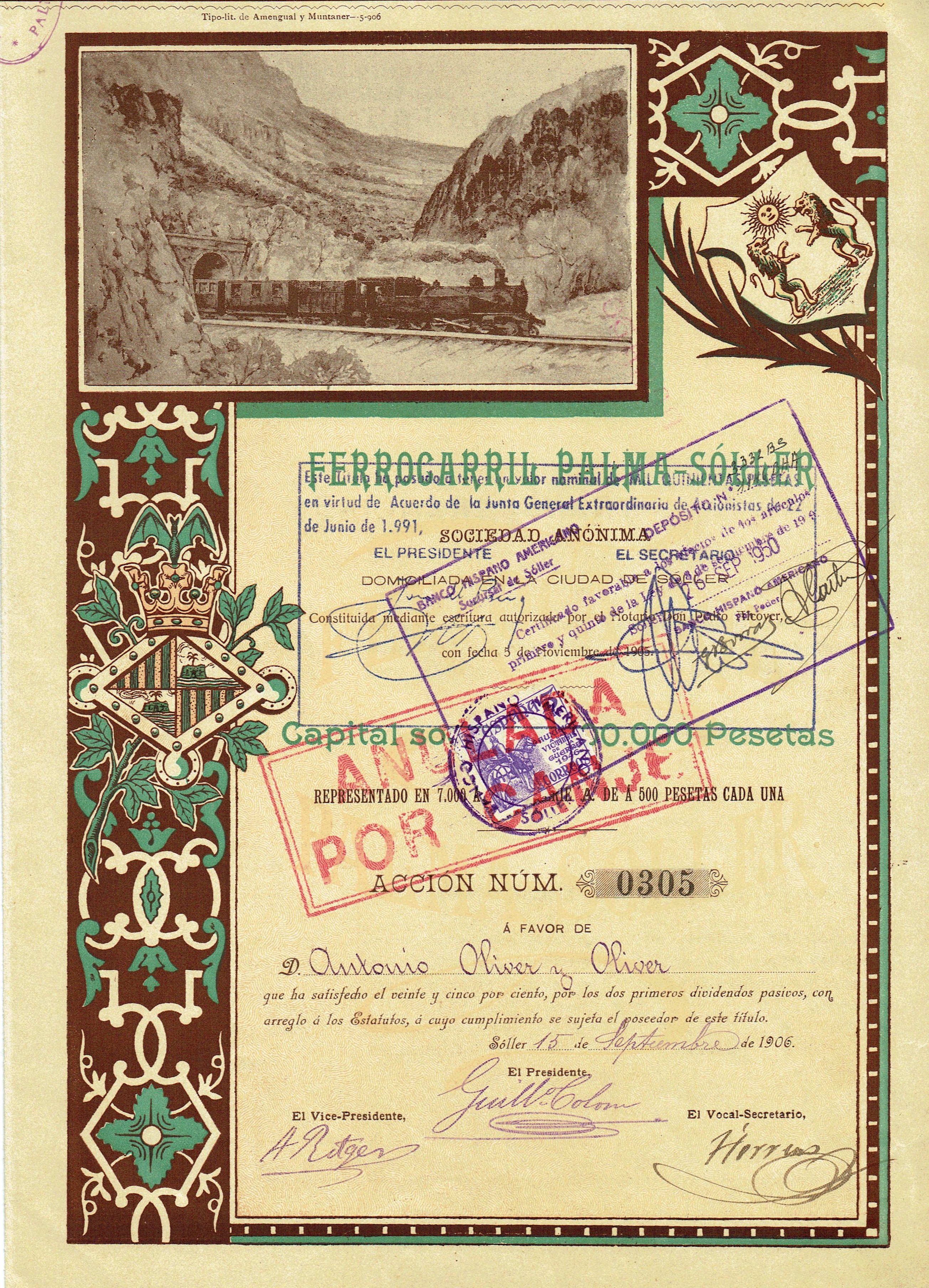 Share of the Ferrocarril Palma-Sóller, issued 15. September 1906